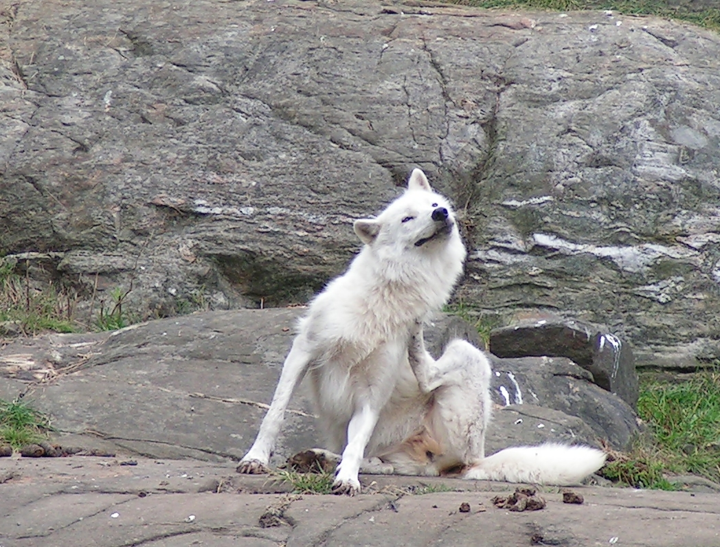 An Arctic Wolf (Canis lupus arctos) at Omega Park in Montebello, Québec, Canada.